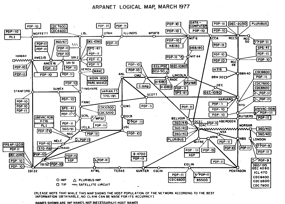 ARPANET logical map circa 1977